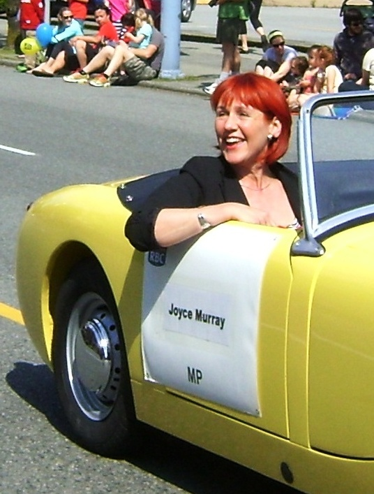 The annual Point Grey Fiesta day parade includes local VIPs riding in vintage sports cars. It is in the federal electoral riding of Vancouver Quadra represented from 2008 by Joyce Murray.